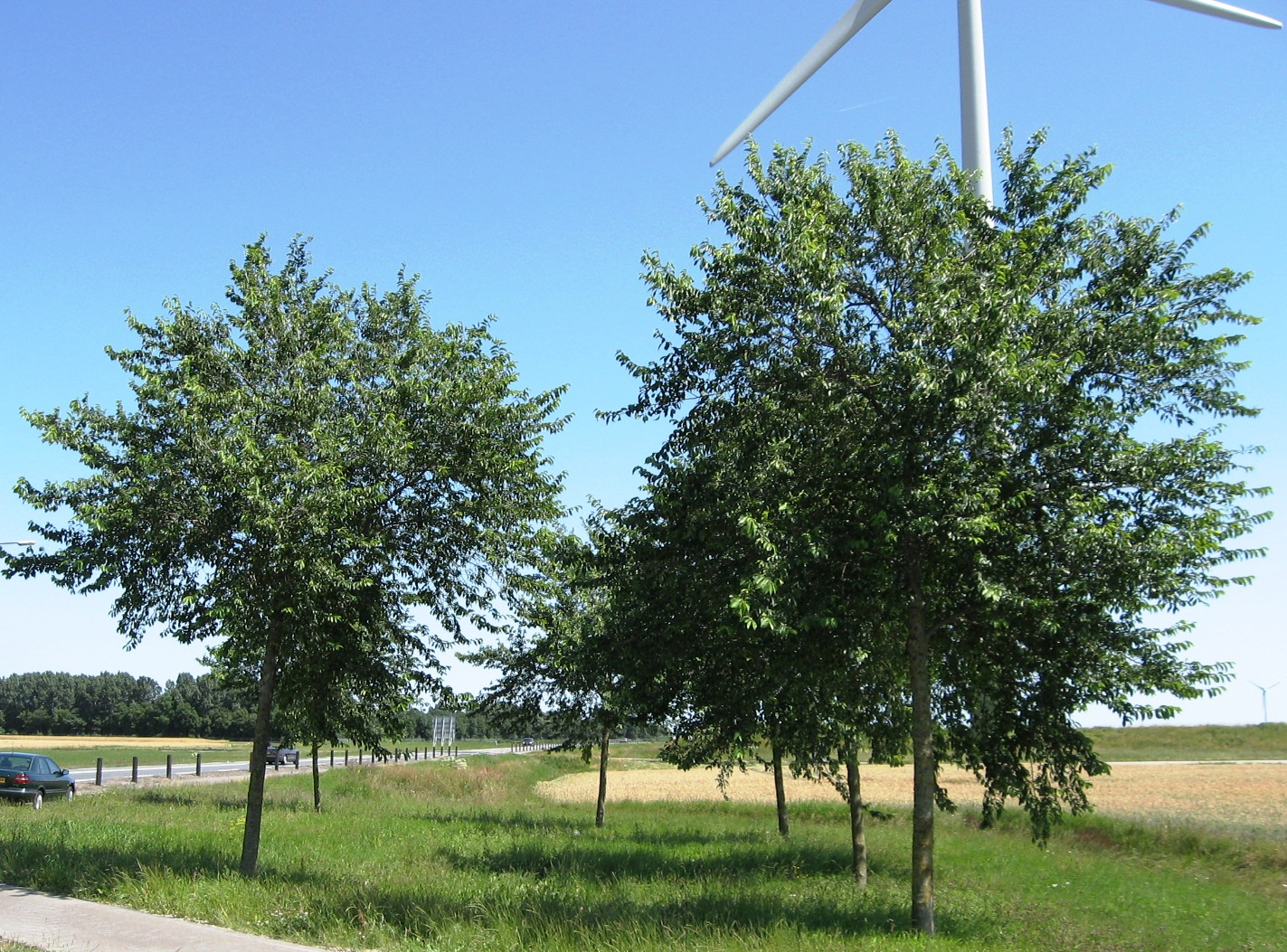 Ulmus hollandica 'Pioneer'; Photo by R. Nijboer